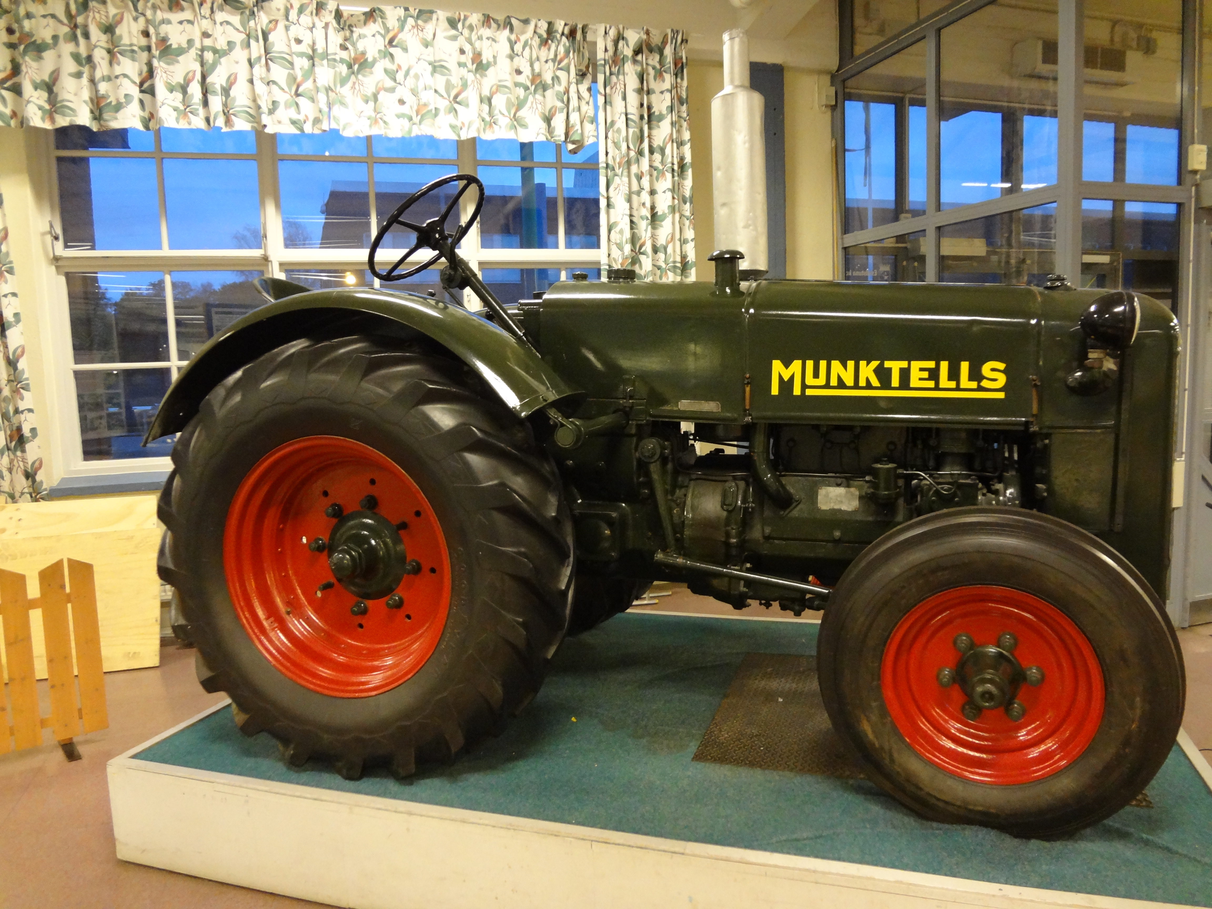 Bolinder Munktell model BM20.